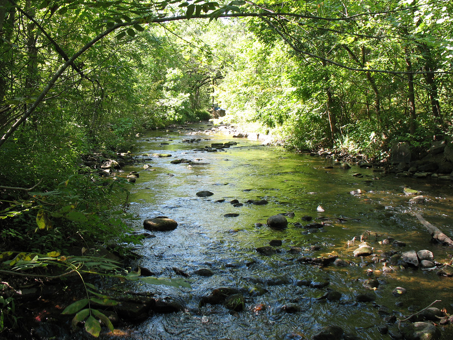 The Watab River in the city of Sartell, Minnesota.